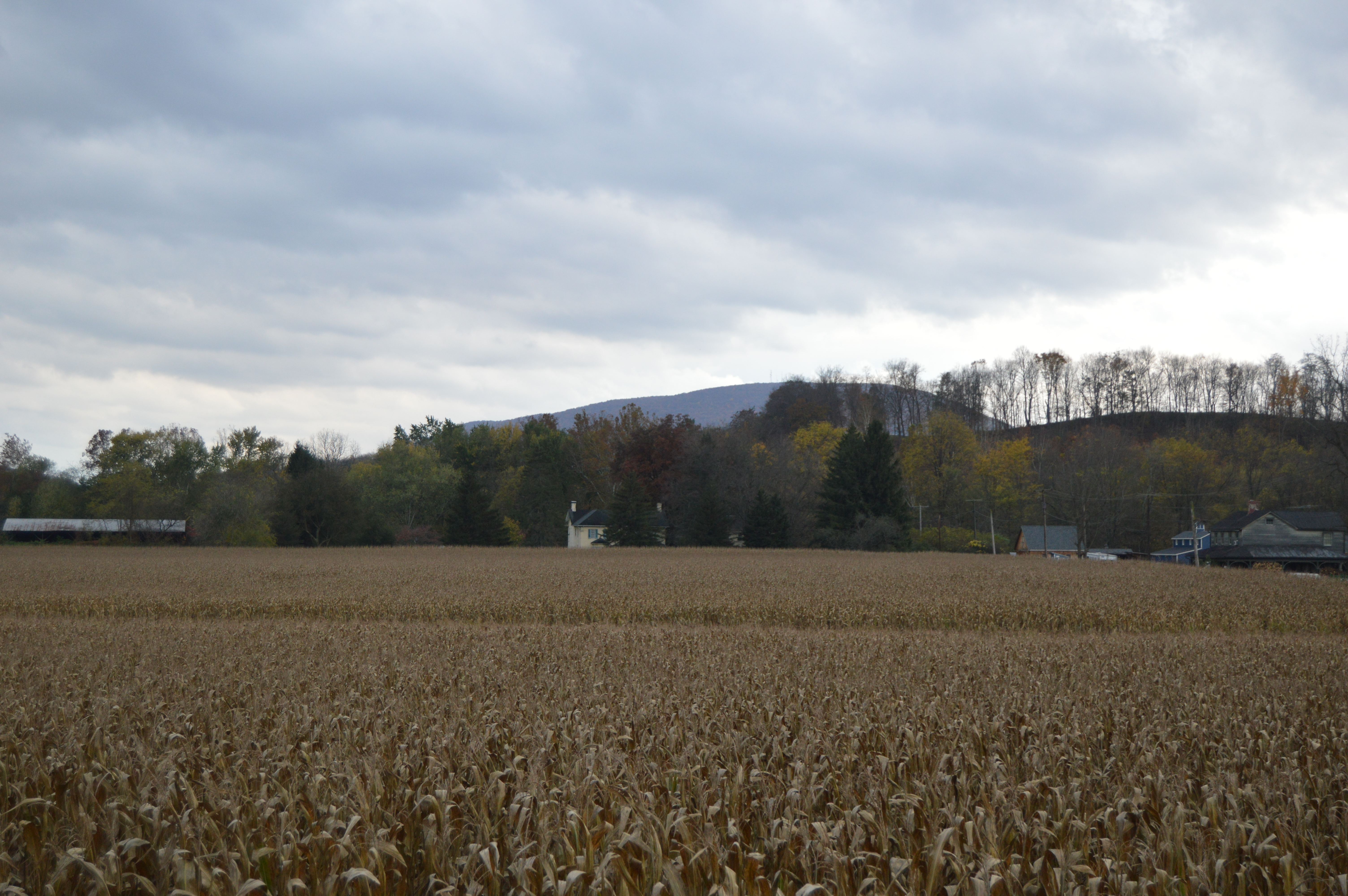 Looking southwest from Alexandria Pike Road east of Alexandria in Porter Township, Huntingdon County, Pennsylvania, United States. The buildings in the distance are part of the Juniata Iron Works, which is listed on the National Register of Historic Places as a historic district.